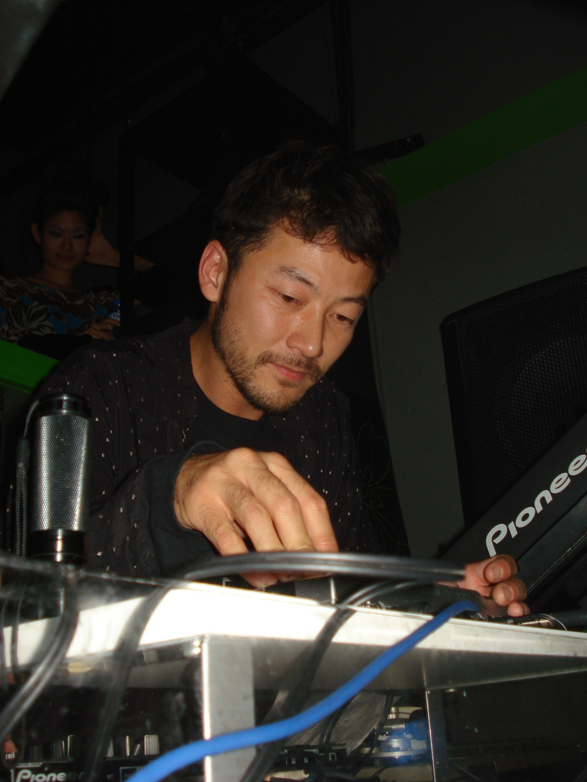 Japanese actor Tadanobu Asano (playing off a mini yamaha qy100 palm top midi sequencer that was making sounds? and controlling a korg electribe esx-1 with bonus scratching by this gaijin dj and another japanese DJ doin knob tweakin on the electribe it was really good and i was really stoked that an actor whose work i like so much was making acid otaku music gave him a high five afterwards and tried to have a drink with him, but he was having a 1 on 1 with the gaijin DJ after the show)